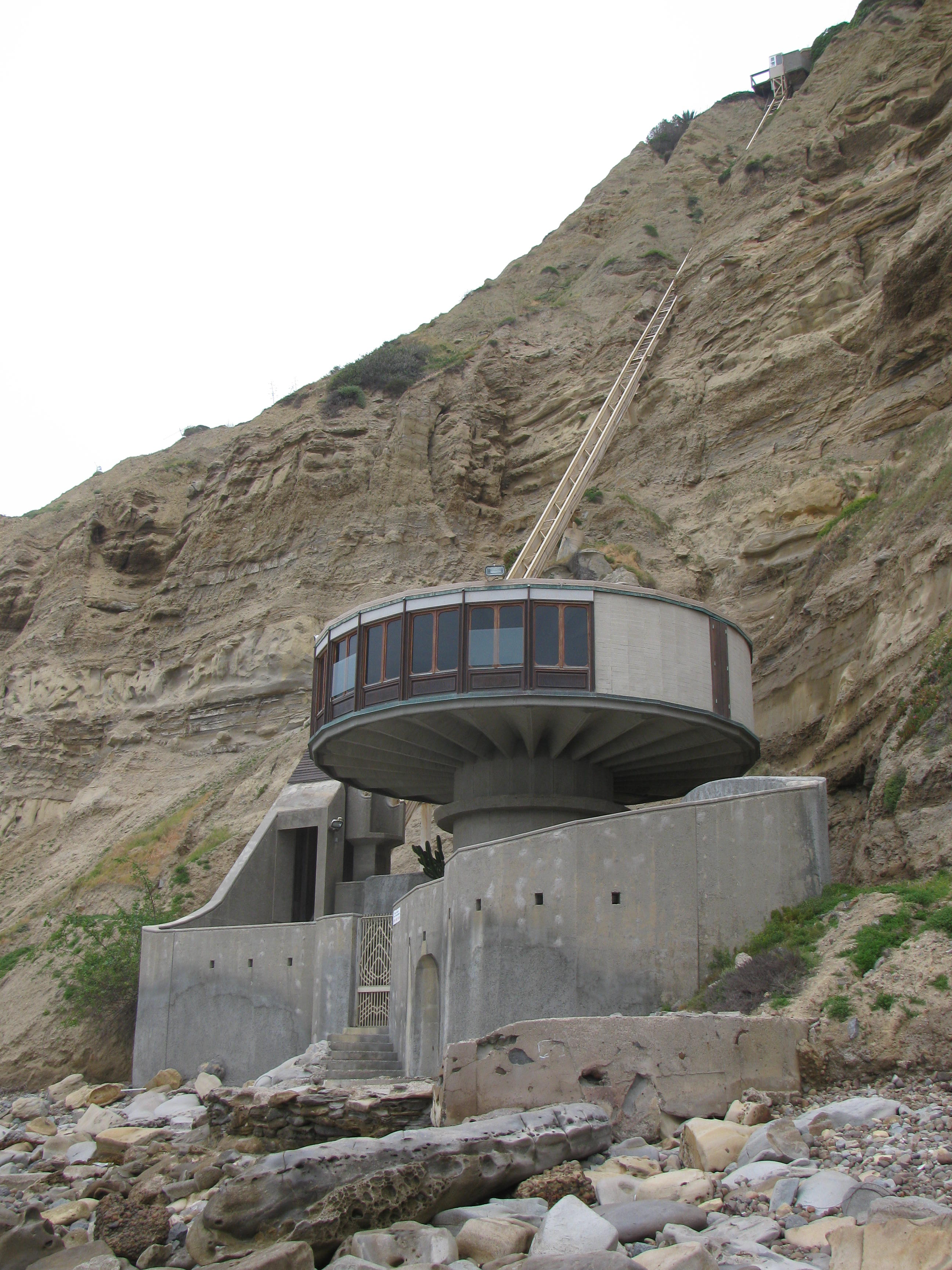 Beach house on south end of Blacks Beach, north of Scripps Pier with funicular to La Jolla Farms mansion in La Jolla, California.